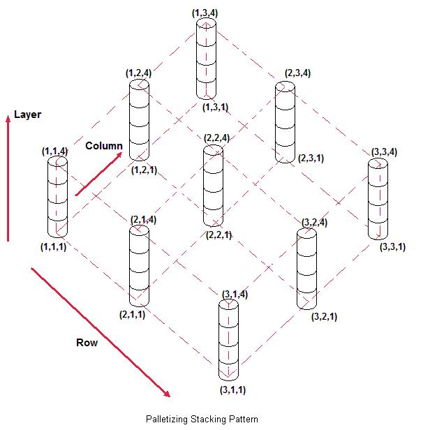 I created this rendition entirely on my own using Autodesk 3DStudio.